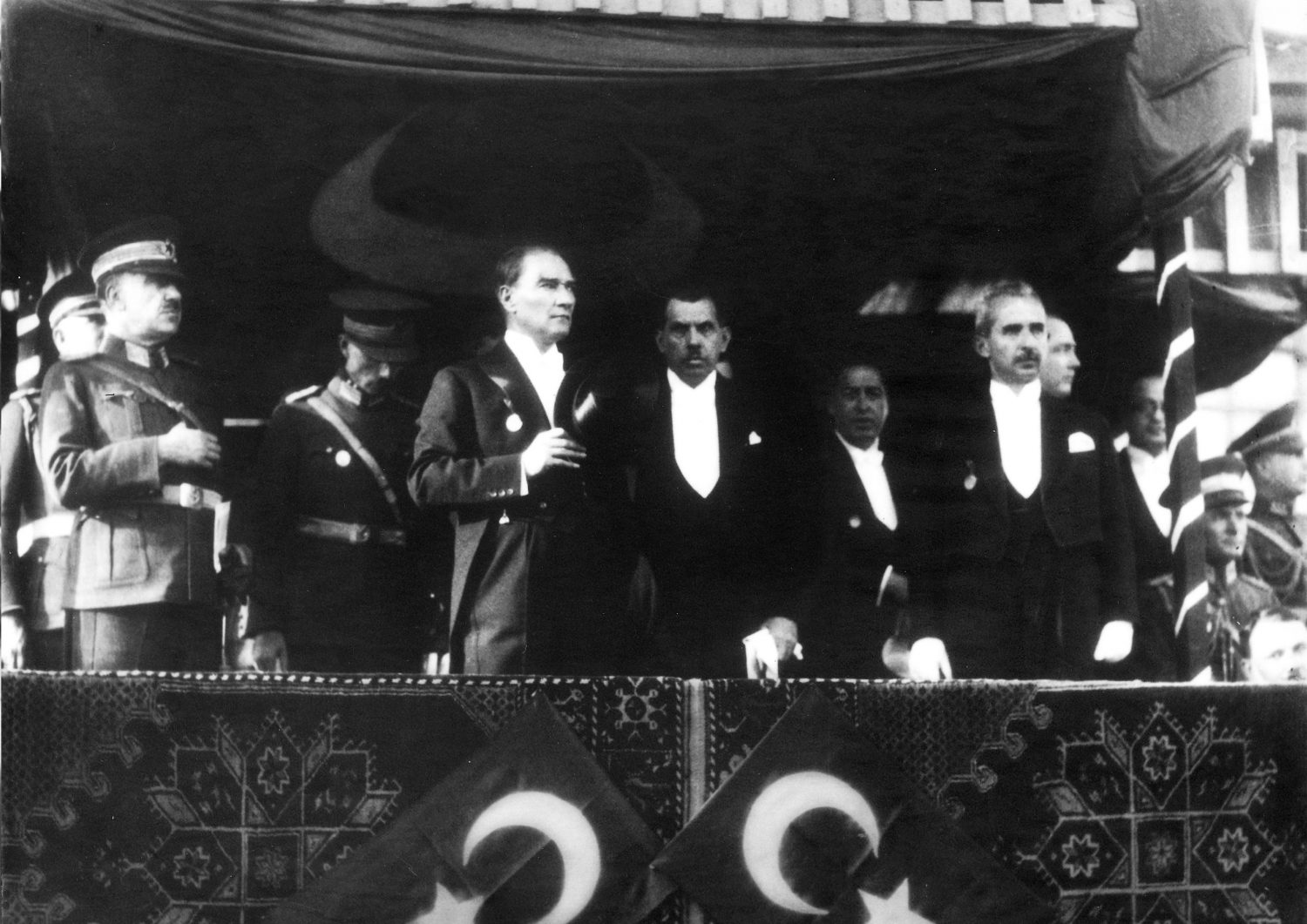 Mustafa Kemal's 1933 Speech at the 10th Anniversary of the Republic of Turkey left to right: Chief of General Staff Mareşal Fevzi (Çakmak), President Gazi Mustafa Kemal (Atatürk), Speaker of the Grand National Assembly Kâzım Köprülü (Özalp), Prime Minister İsmet (İnönü). Kemal Atatürk (or alternatively written as Kamâl Atatürk, Mustafa Kemal Pasha until 1934, commonly referred to as Mustafa Kemal Atatürk; 1881 – 10 November 1938) was a Turkish field marshal, revolutionary statesman, author, and the founding father of the Republic of Turkey, serving as its first President from 1923 until his death in 1938. He undertook sweeping progressive reforms, which modernized Turkey into a secular, industrial nation. Ideologically a secularist and nationalist, his policies and theories became known as Kemalism. Due to his military and political accomplishments, Atatürk is regarded as one of the most important political leaders of the 20th century.